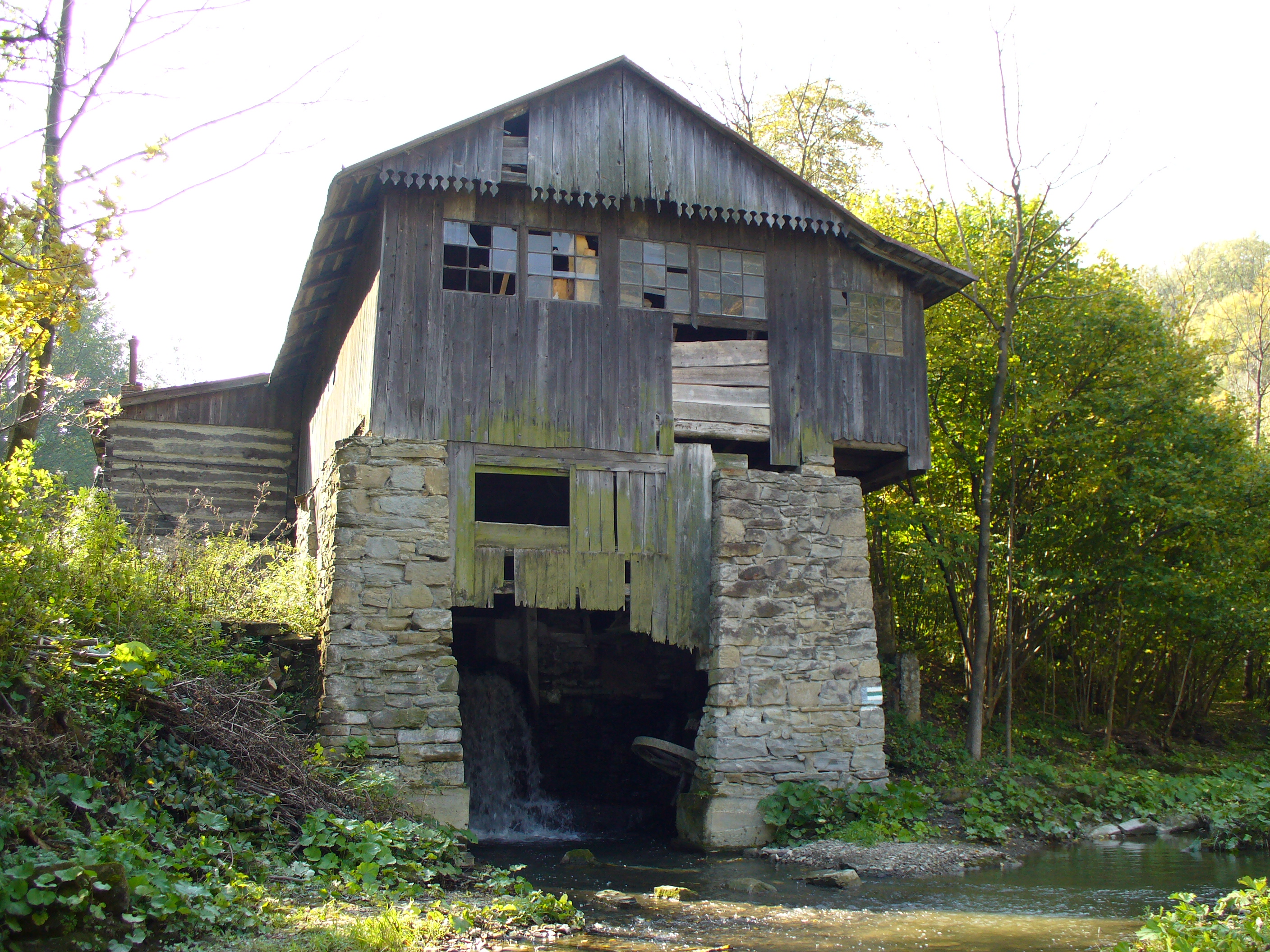 Besko